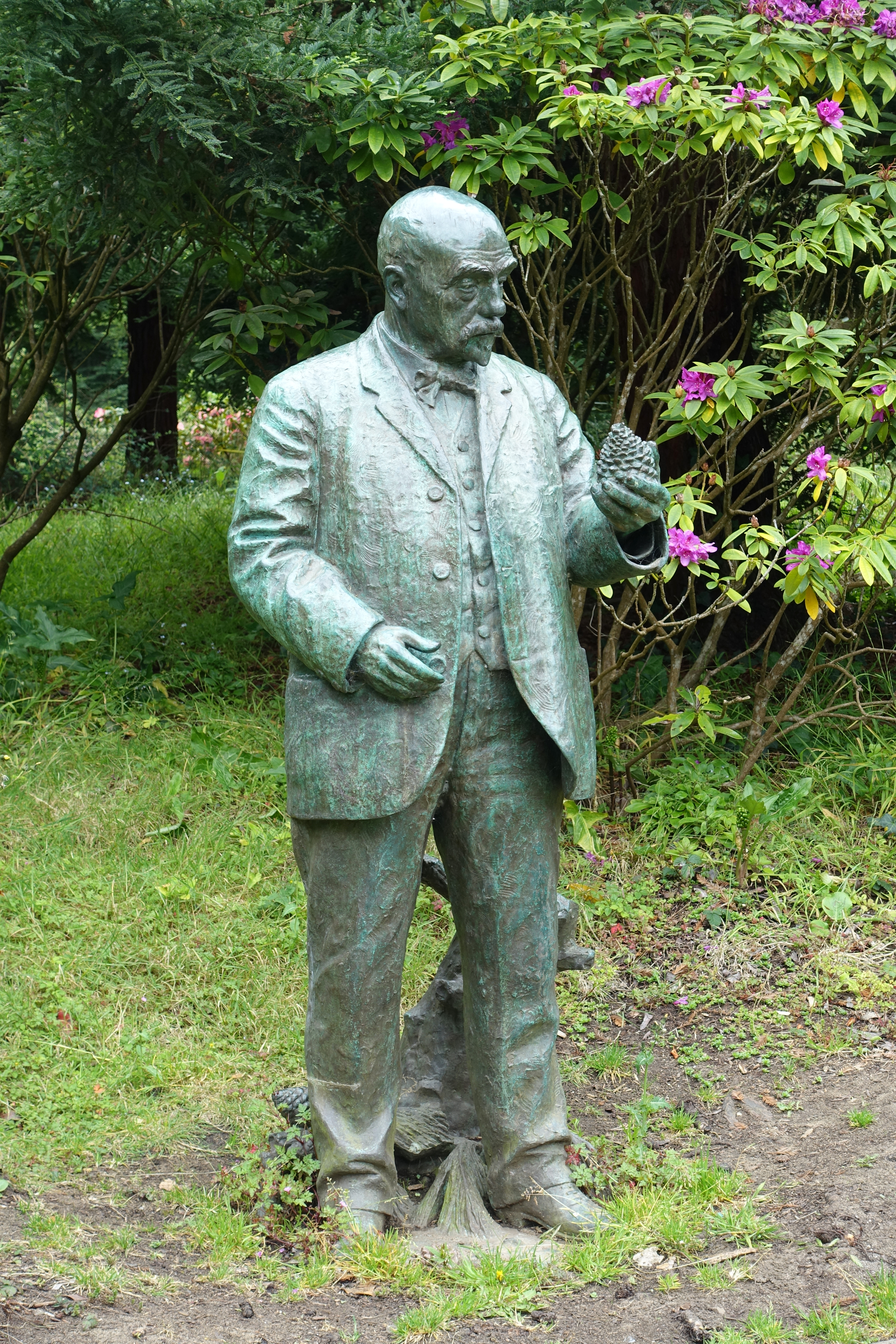 John McLaren by Melvin Earl Cummings (1876-1936) - Golden Gate Park, San Francisco, California, USA. This artwork is in the public domain because the artist died more than 70 years ago.